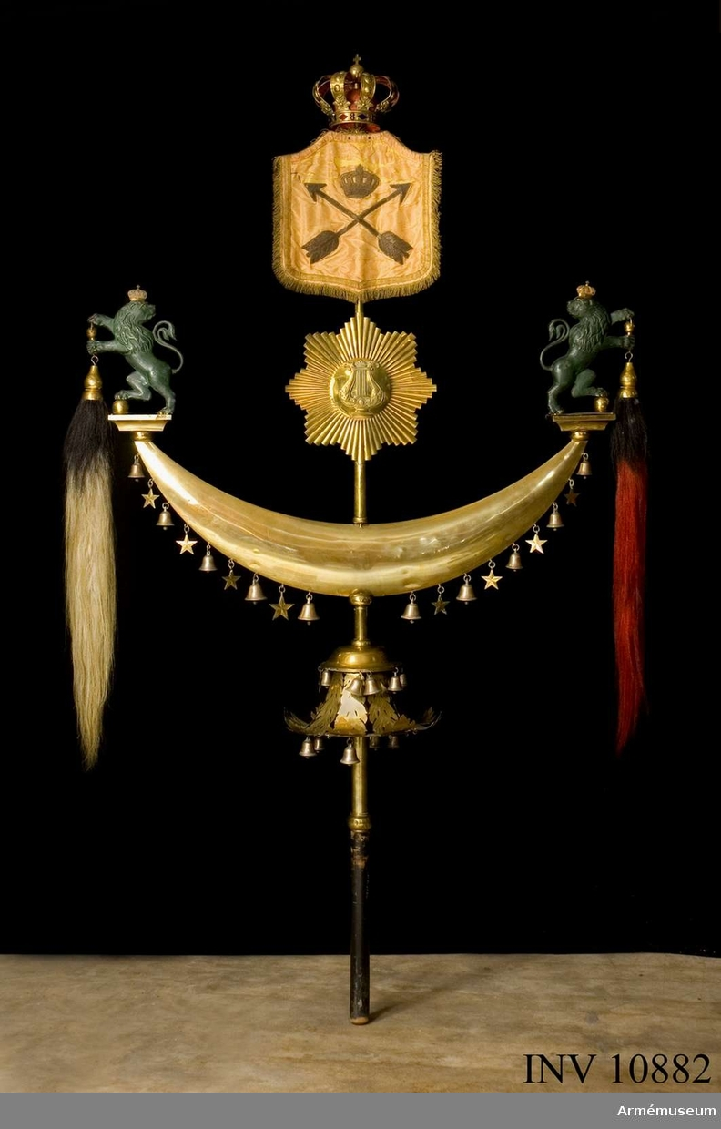 Turkish Crescent (Jingling Johnny) used by Dalregementet before 1889.